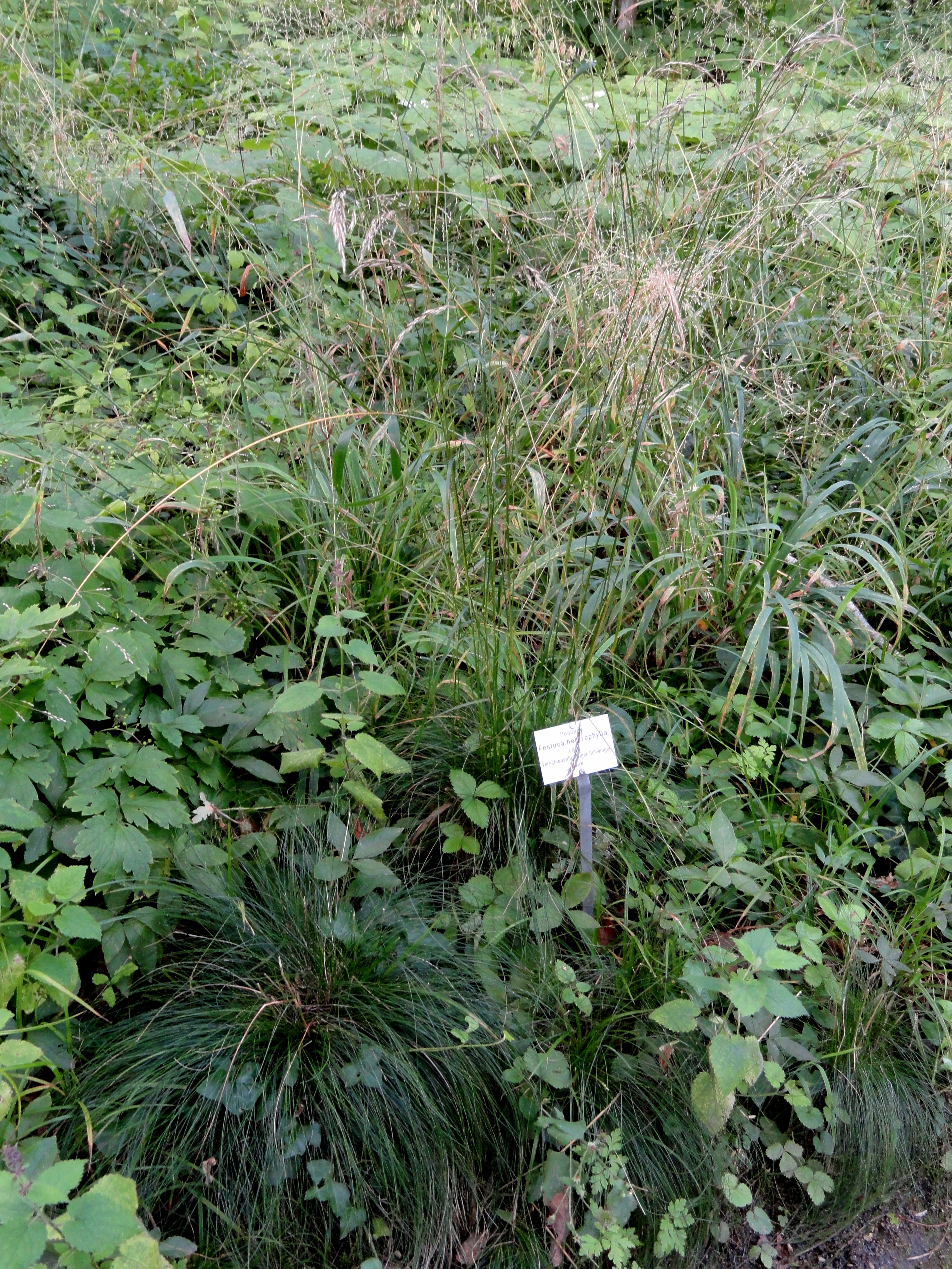 Botanical specimen in the Botanischer Garten, Frankfurt am Main, located at Siesmayerstraße 72, Frankfurt am Main, Germany.